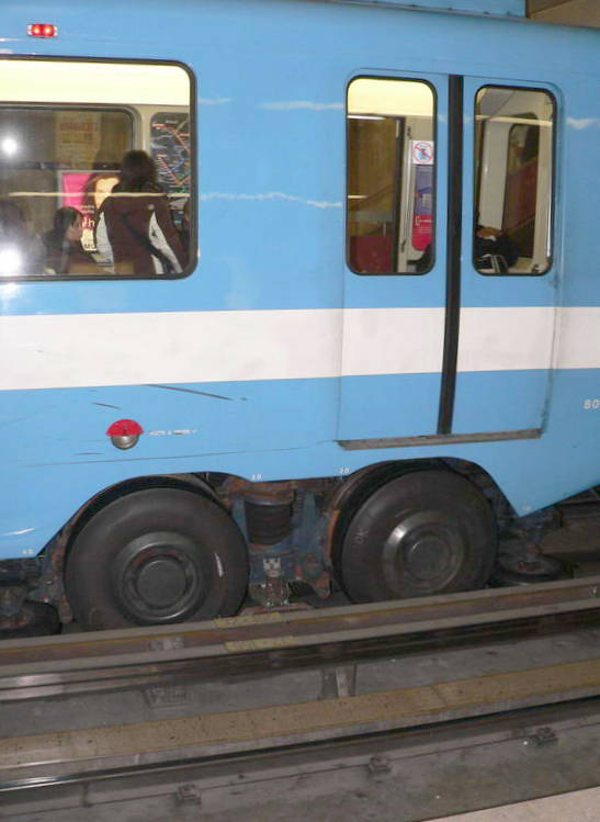 Summary Photo by Nora Vass 2006 march, Montreal Category:Montreal metro